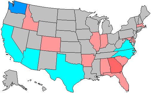 Summary of party change of U.S. house seats in the 1992 House election. Stripes indicate a tie between the gains of two or more parties. Legend: 6+ Democratic seat pickup 3-5 Democratic seat pickup 1-2 Democratic seat pickup 1-2 Republican seat pickup 3-5 Republican seat pickup 6+ Republican seat pickup Note: years ending in 2 may have inconsistent results due to redistricting.